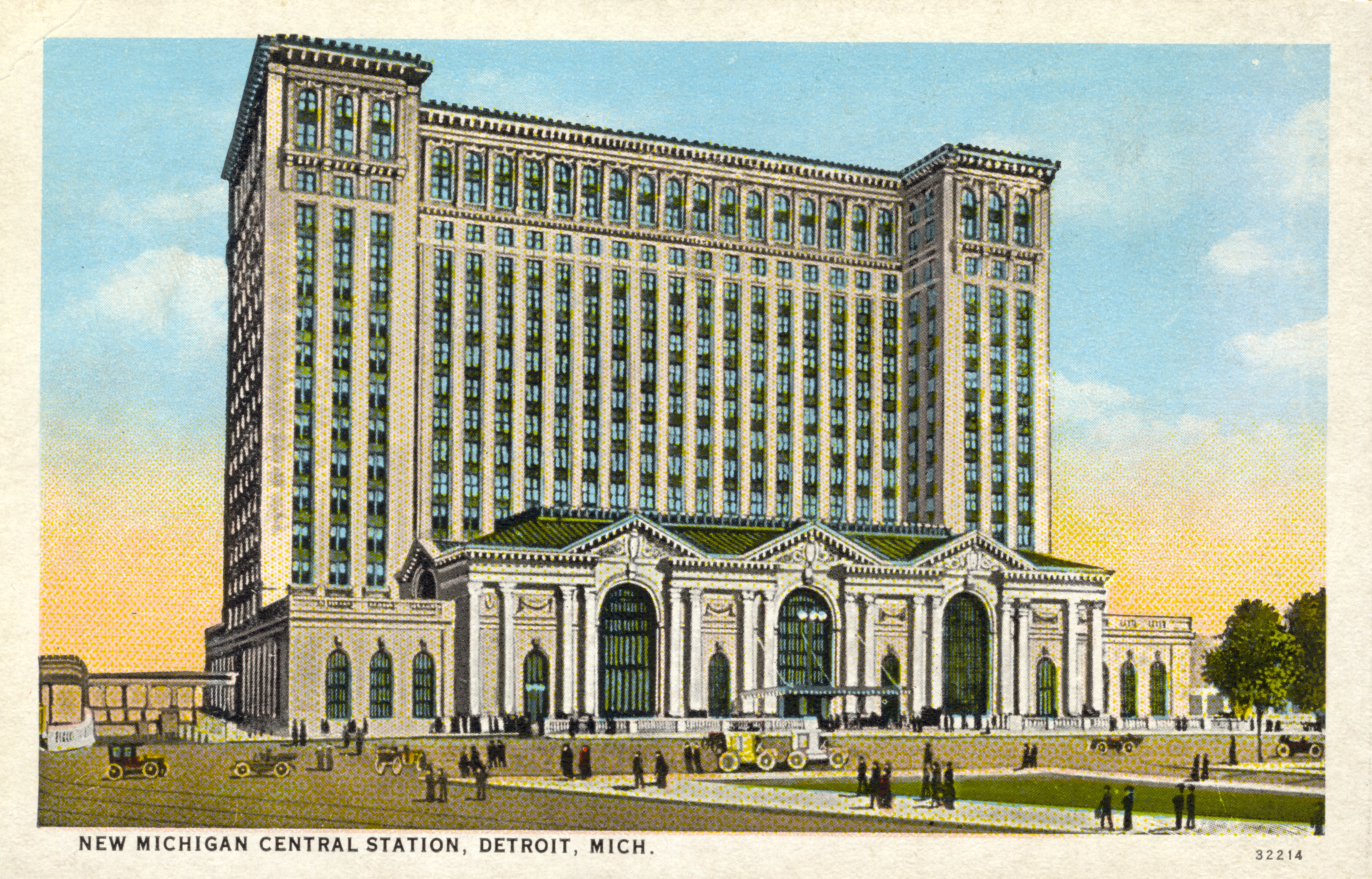 New Michigan Central Station, Detroit, Mich. Reverse text: "The New Michigan Central Station is located near Michigan Avenue between fifteenth and seventeenth Streets, covers twenty-one acres and the total cost is $15,000,000.00. There will be eleven tracks in the station that will accommodate 135 passenger coaches. It will have all conveniences, such as a complete Drug Store with special facilities for the care of Invalids and Change Room where travelers can at nominal cost obtain Shower Baths and make a change of clothing. Accommodations for passengers will not be outdone by any Railroad Station in the World." Postcard 32214